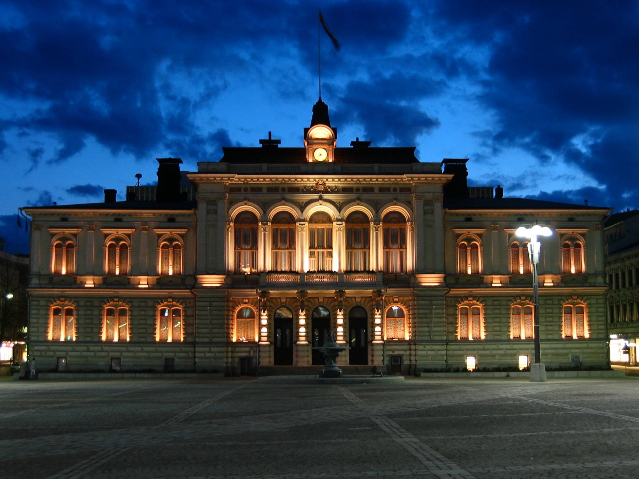 Tampere Townhall, Tampere], Finland in 2002.